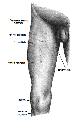 Front and medial aspect of right thigh